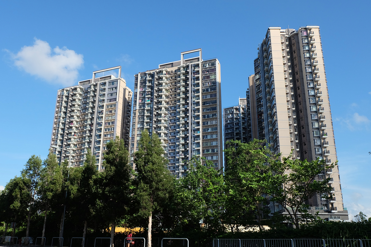 Park Signature Tower 8-10